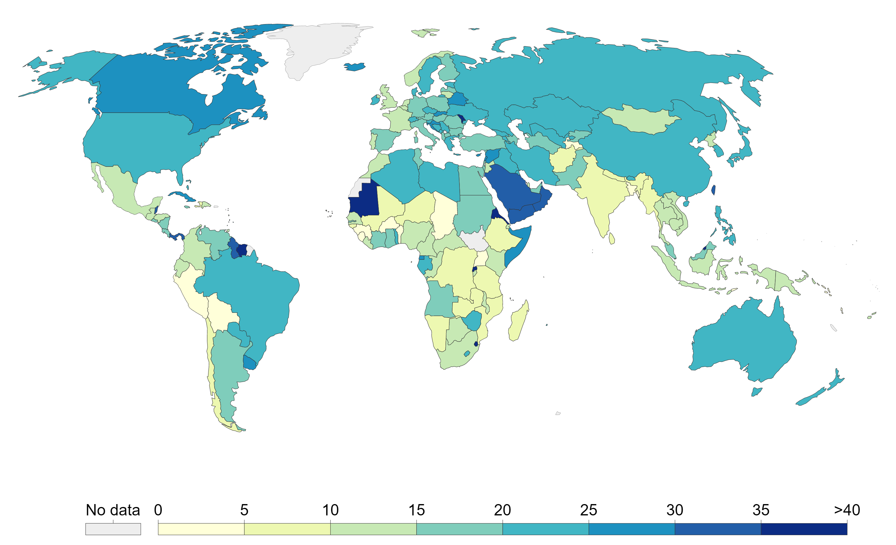 Average cigarette consumption per smoker per day (all ages and both sexes combined).